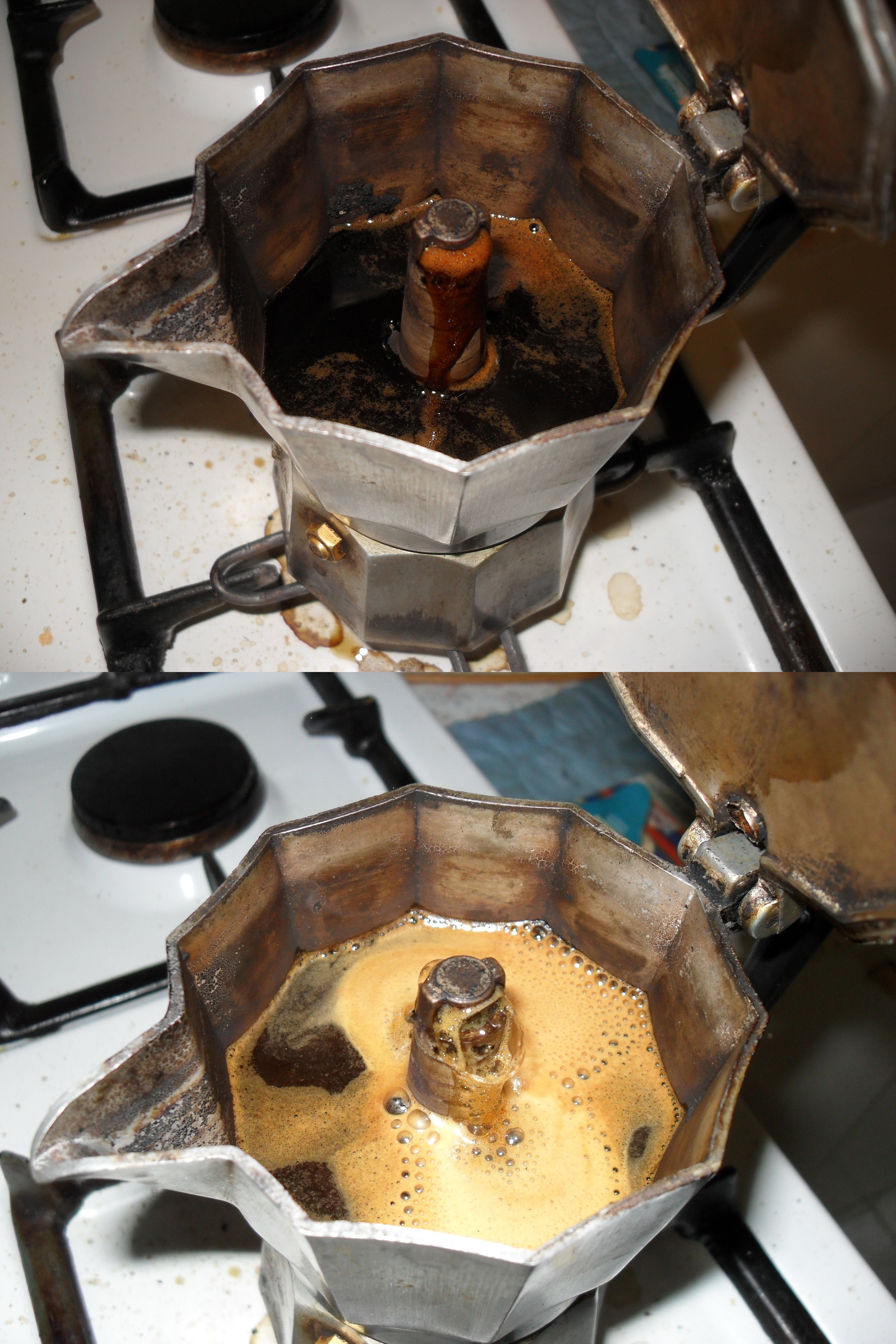 Coffee brewed with moka pot